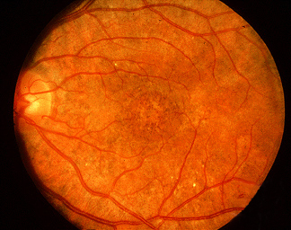 "Salt-and-pepper" retinopathy of the retina is the commonest ocular manifestation of congenital rubella.